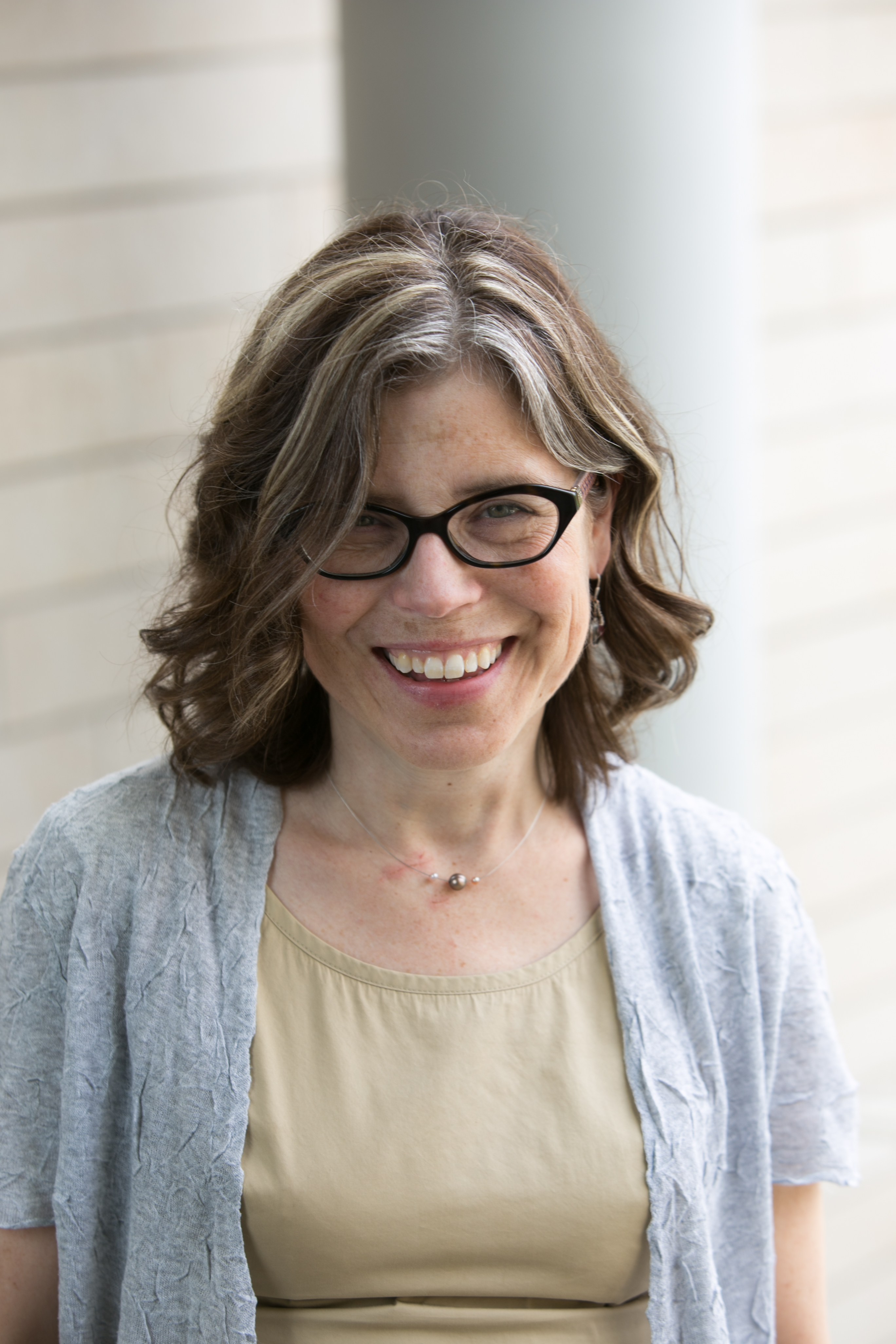 Headshot taken of then-CPC Co-Chair Lisa Daugaard at Seattle City Hall May 2016 by Jennifer Richards Photography (copyright holder) May 2016